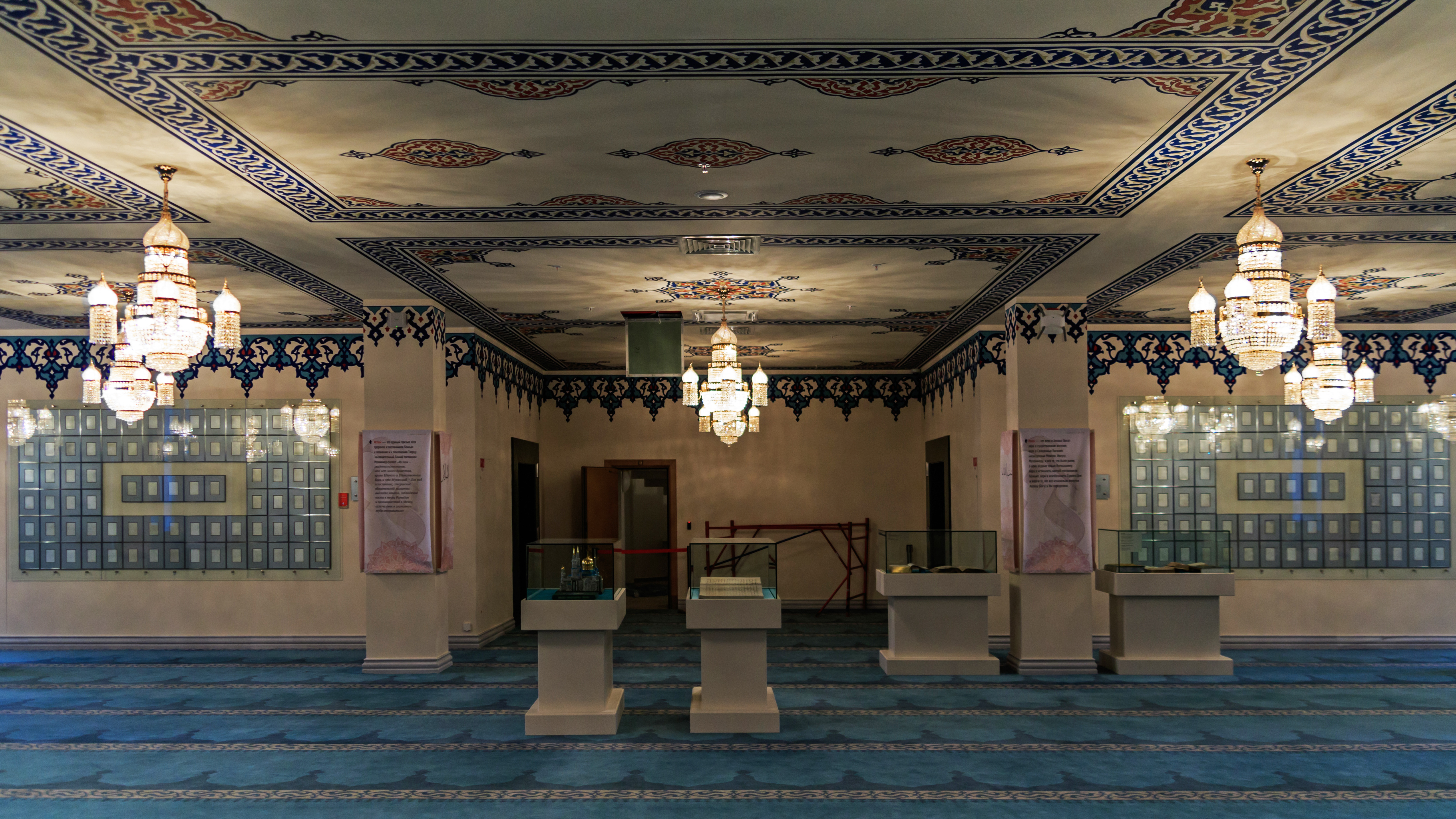 Moscow Cathedral Mosque (new), interior